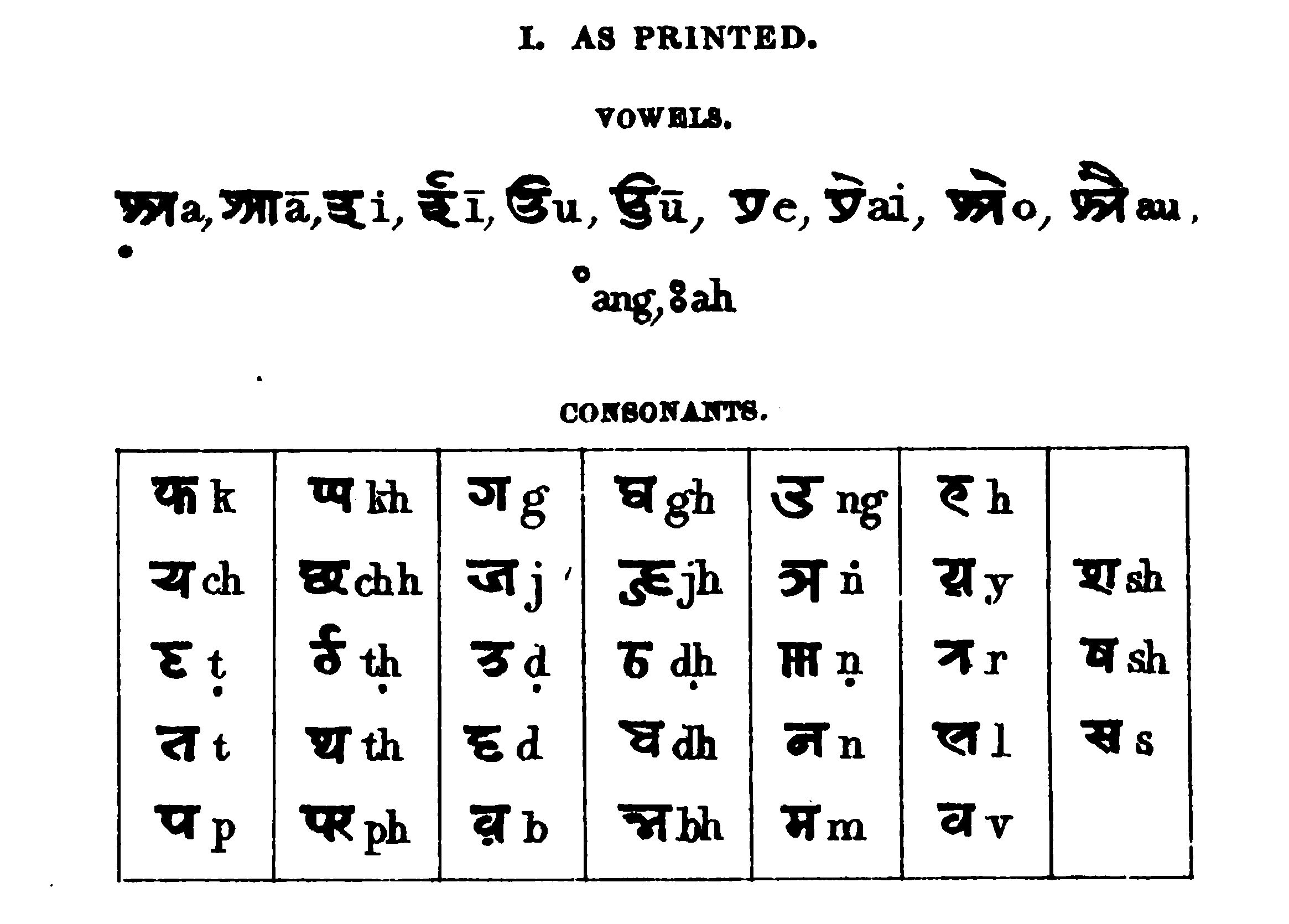 This table sets out the printed form of the vowels and consonants of the Kaithi script, as of the middle of the 19th century.